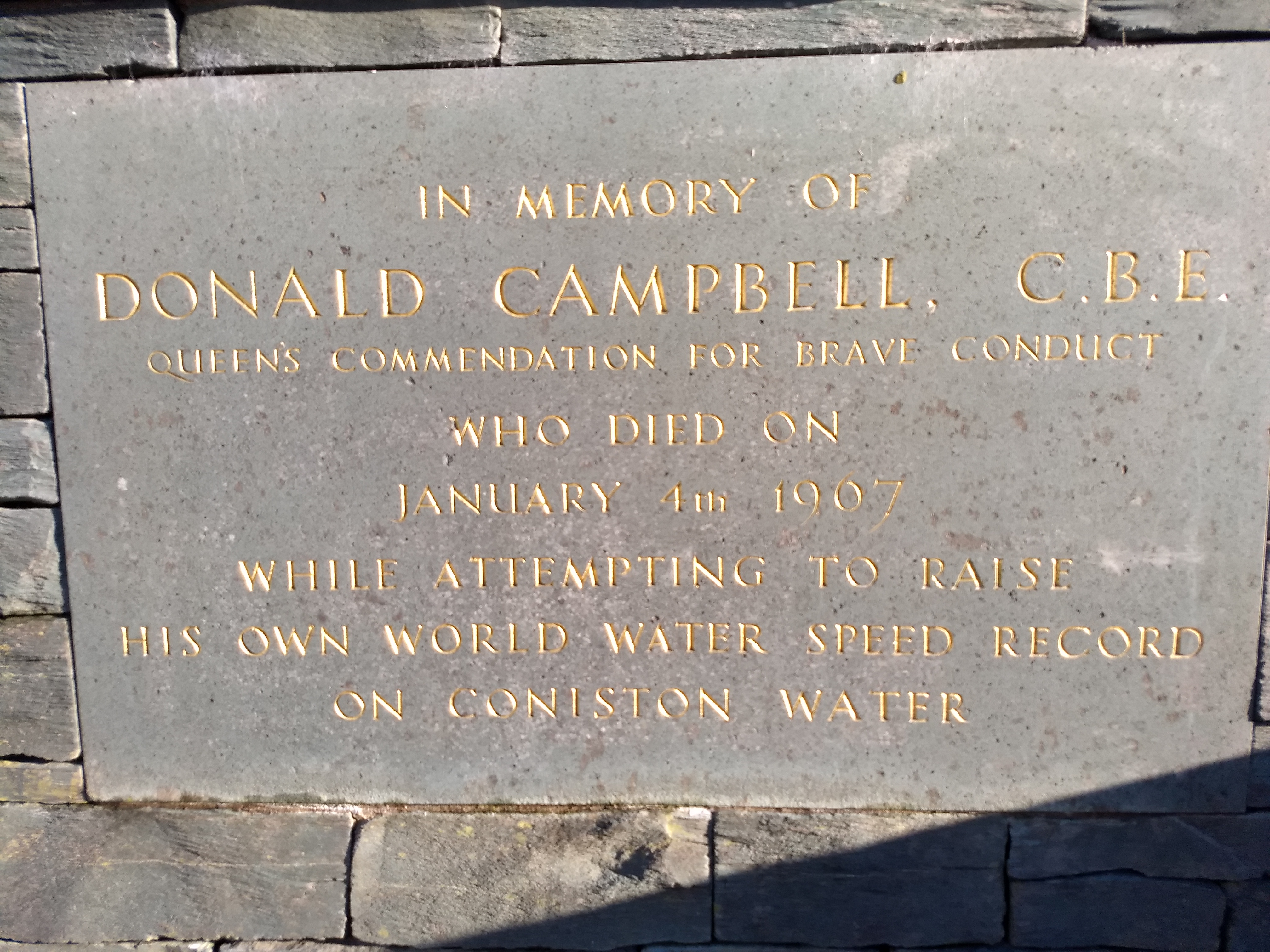 This is the memorial plaque for Donald Campbell, by a public seat in Coniston, between Ruskin Avenue and Tilberthwaite Avenue